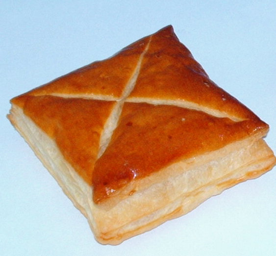 Spanisch Brötli, pastry specialty from Baden, Switzerland